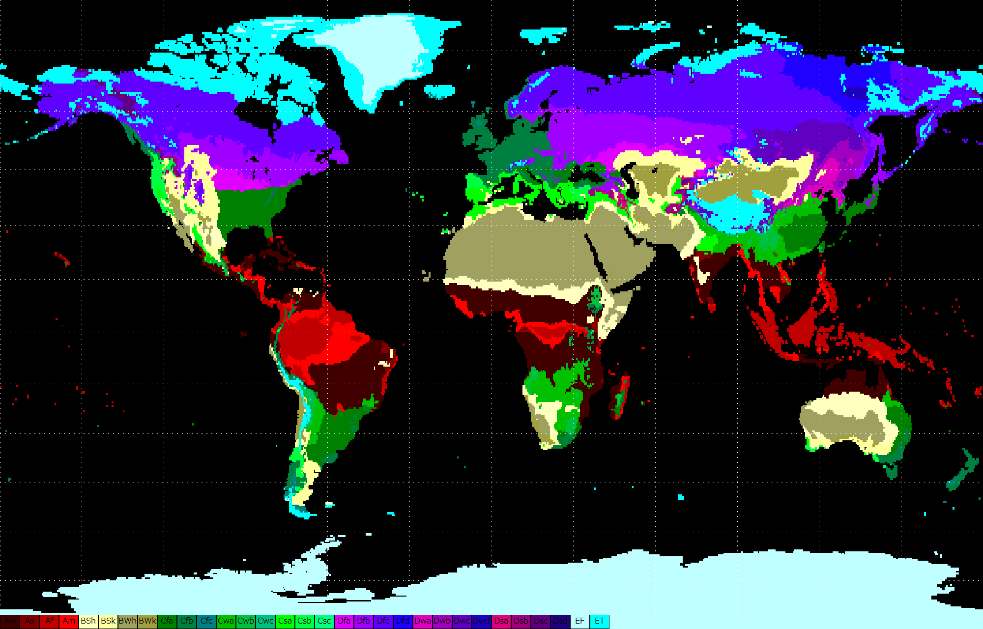 I, みれでぃー, created. --みれでぃー 17:59, 31 October 2006 (UTC)